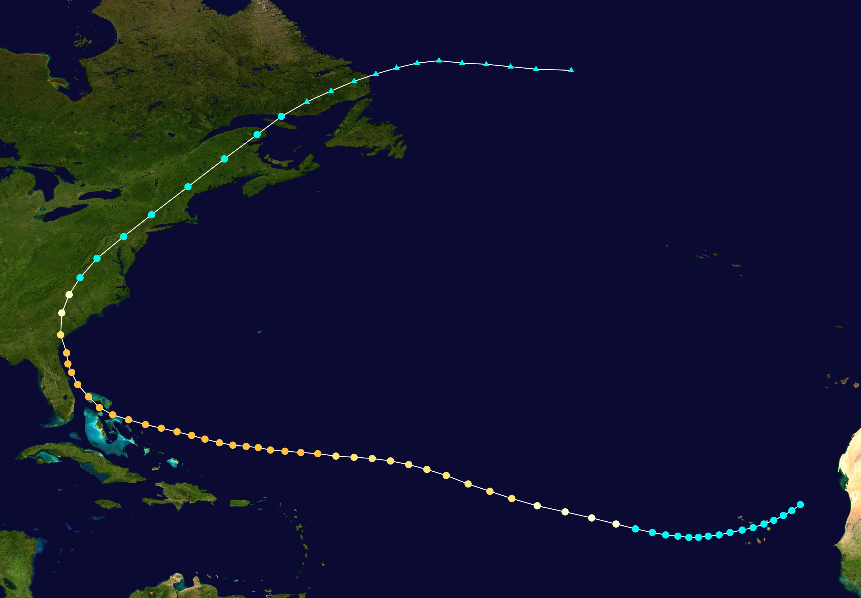 1893 Sea Islands hurricane track. Uses the color scheme from the Saffir-Simpson Hurricane Scale.